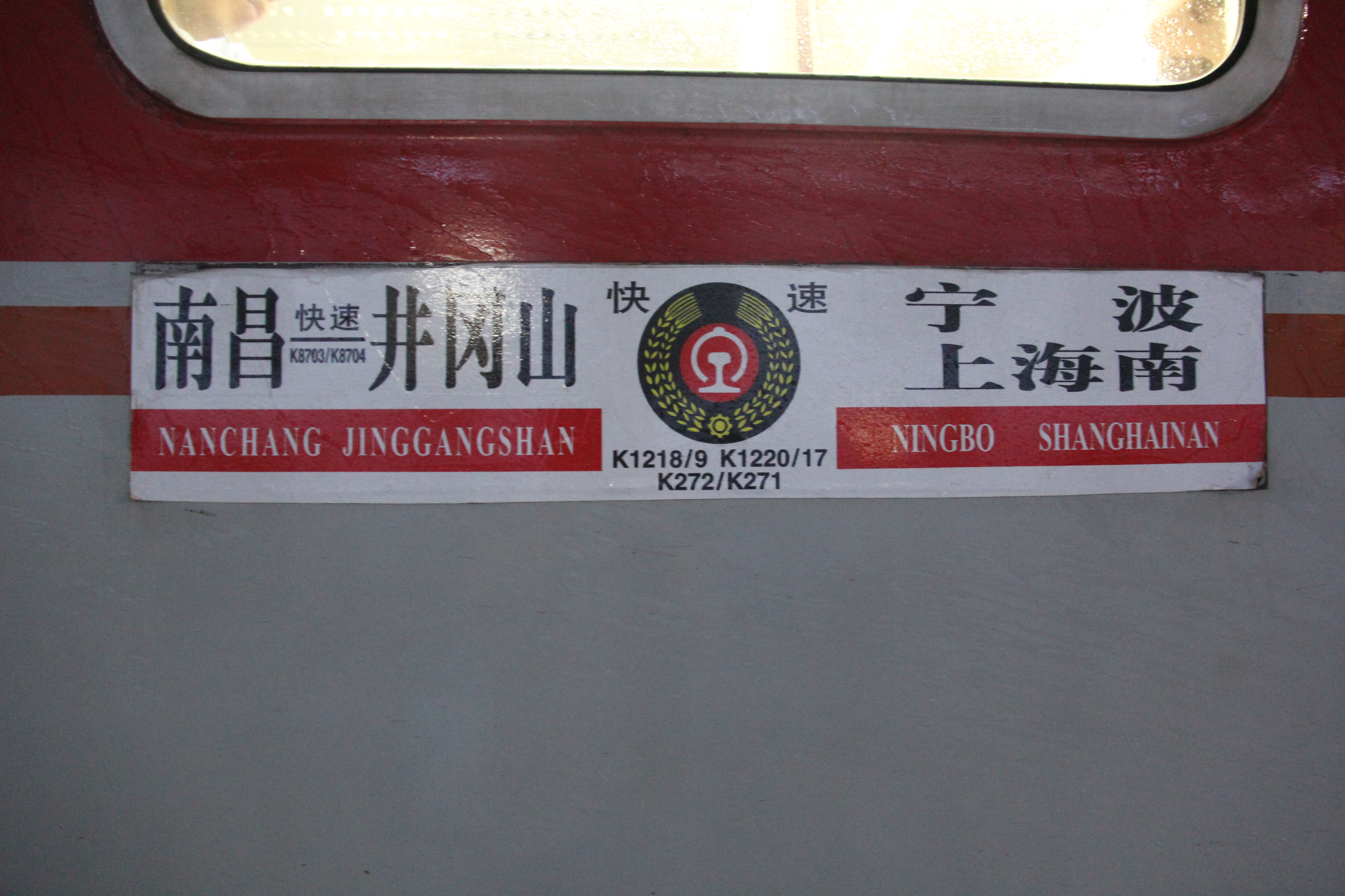 K271,2 information board